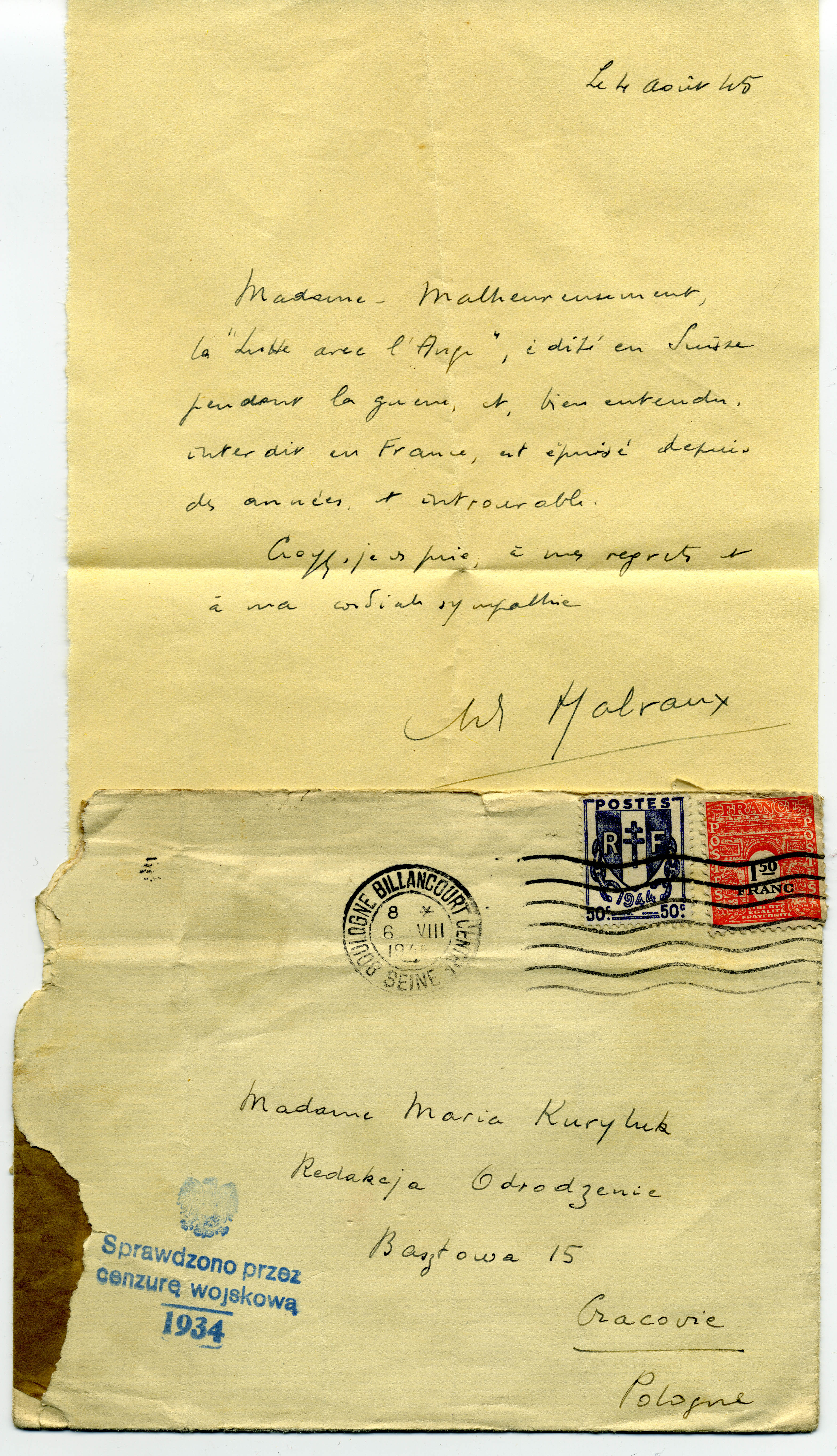 A letter from André Malraux, written to Maria Kuryluk. Franked with two stamps including Type “Chaînes brisées” (issued February 1, 1945) and “Arc de Triomphe” (issued February 12, 1945)